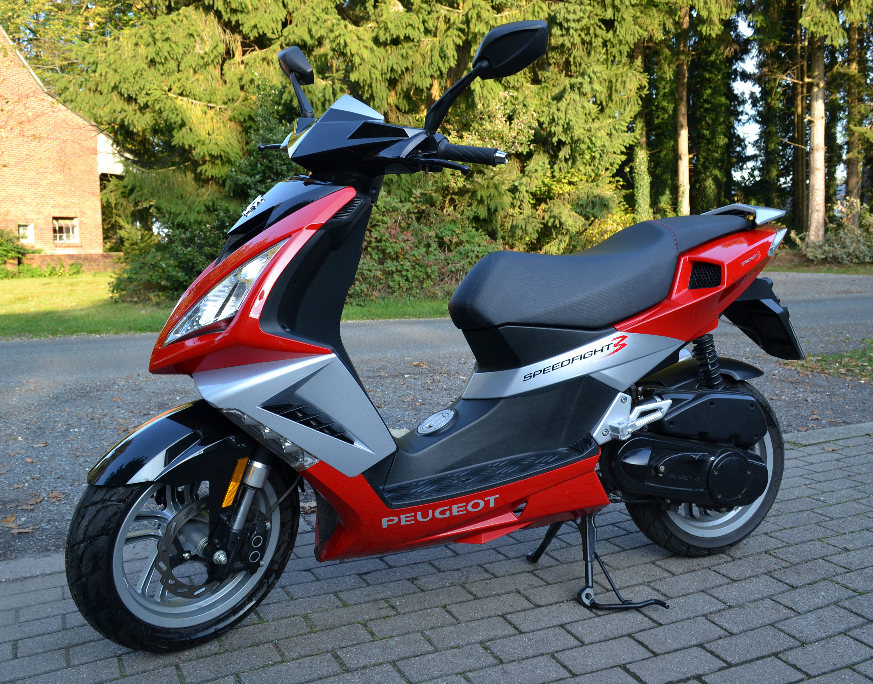 This image shows the scooter Speedfight 3 in the colors red and silver of the manufacturer Peugeot in its unaltered original state.